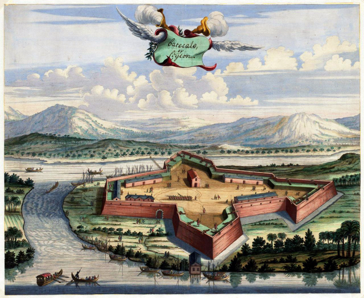 Antique print of the Batticaloa Fort, Sri Lanka by Baldaeus, printed in 1672 for the Dutch first edition of Baldaeus' work 'A true and exact description of the most celebrated East-India coasts of Malabar and Coromandel and also of the Isle of Ceylon' published in Amsterdam, 1672 by Janssonius van Waasberge en van Someren. Dimension: 124 3/4 x 12 inch. '